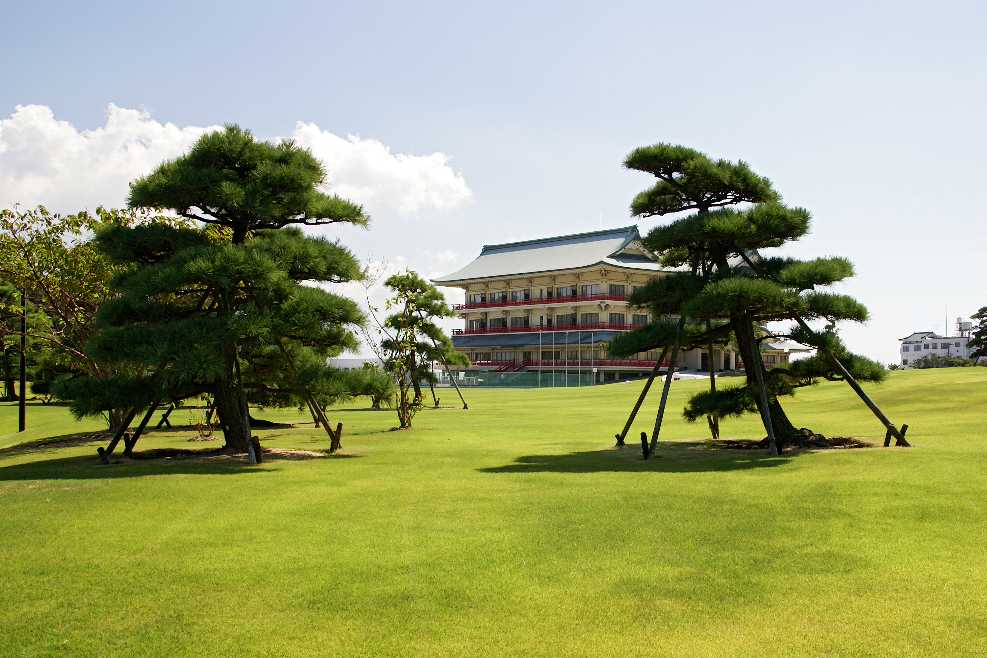 Otsuka-shiosai-so. It is a corporate rest home of Otsuka Pharmaceutical in Naruto, Tokushima prefecture, Japan